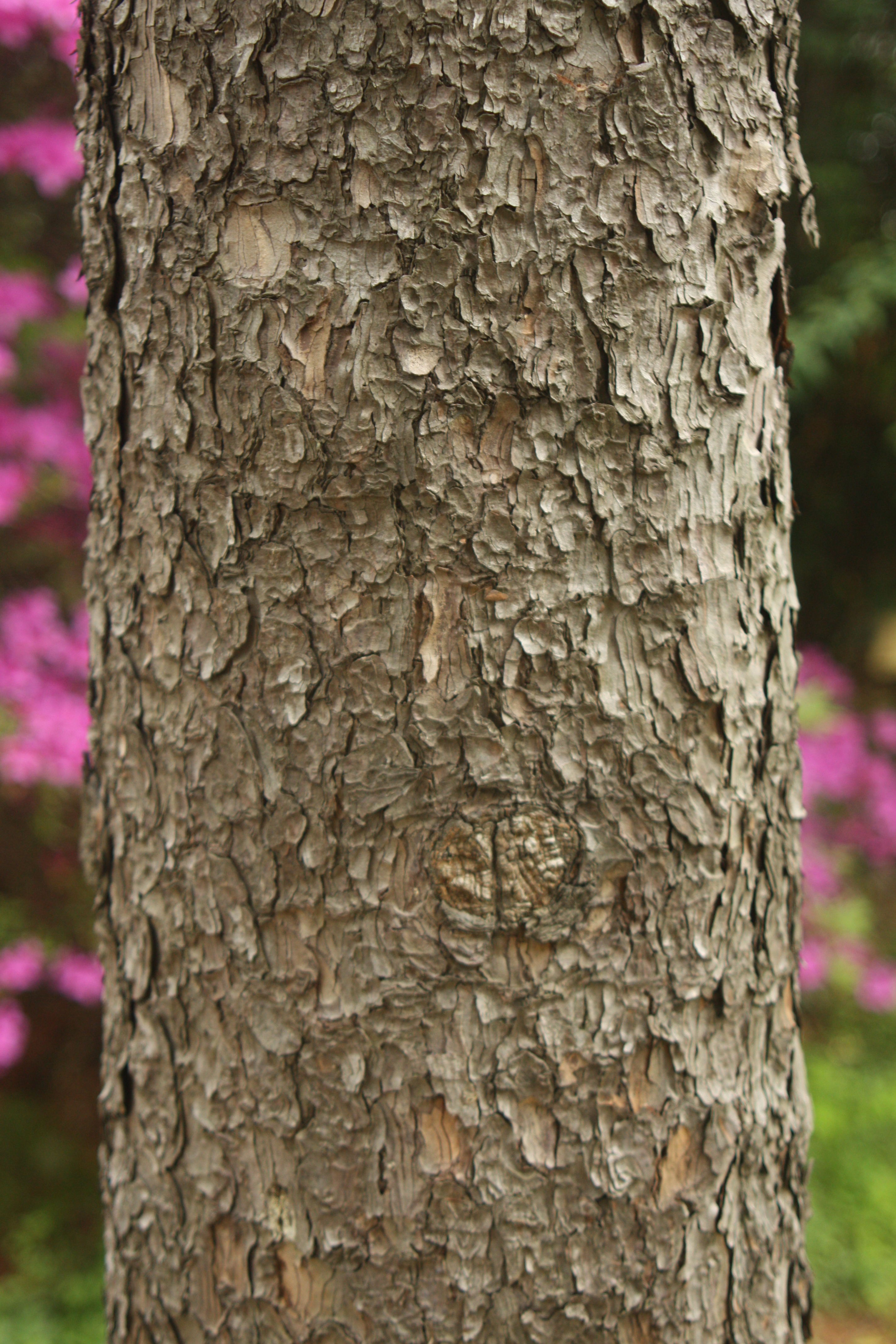 Picea koraiensis in Seoul, Korea